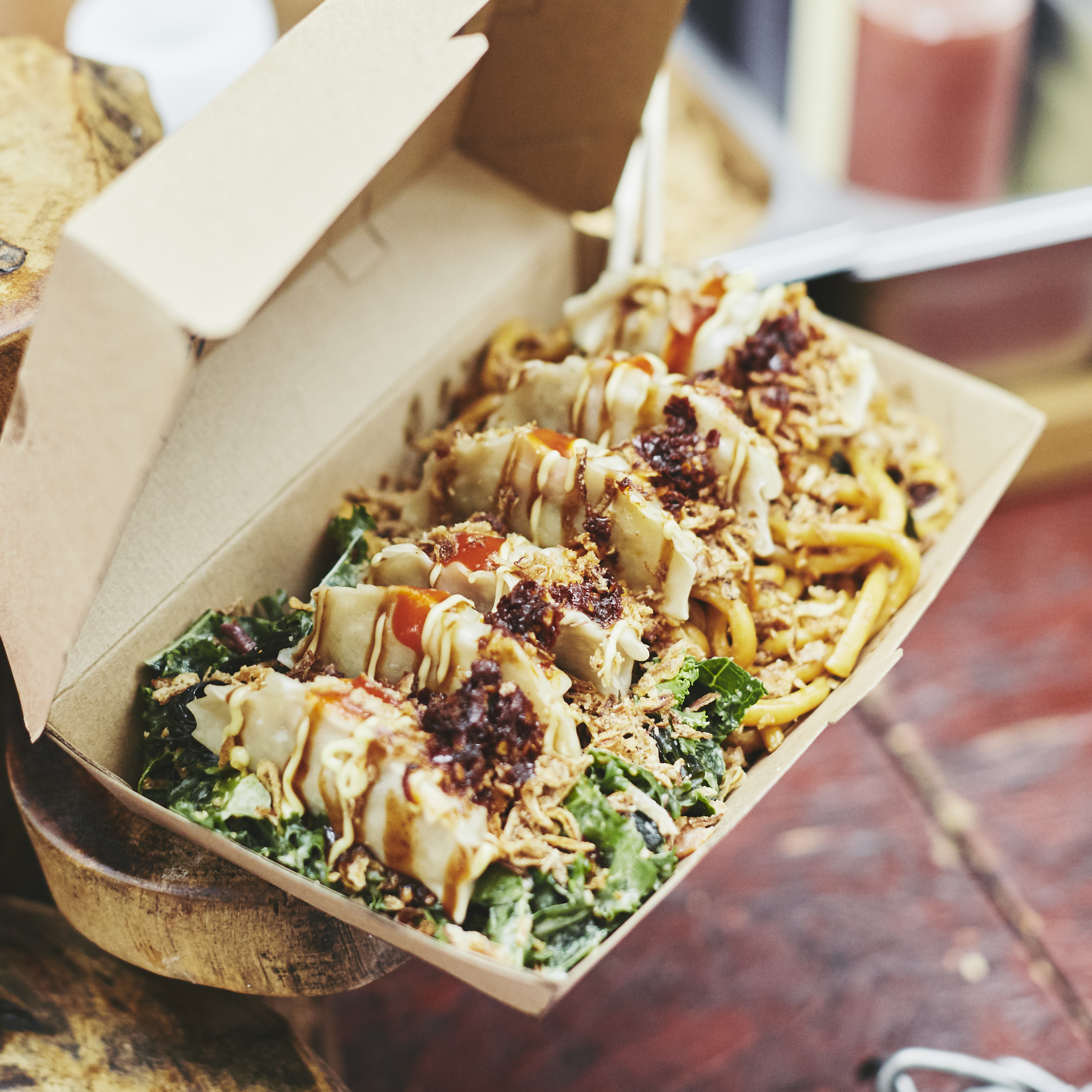 Food served at Maltby Street Market in London